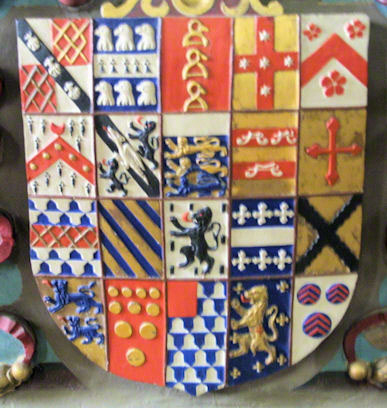 Arms of Robert Spencer and Margaret Willoughby